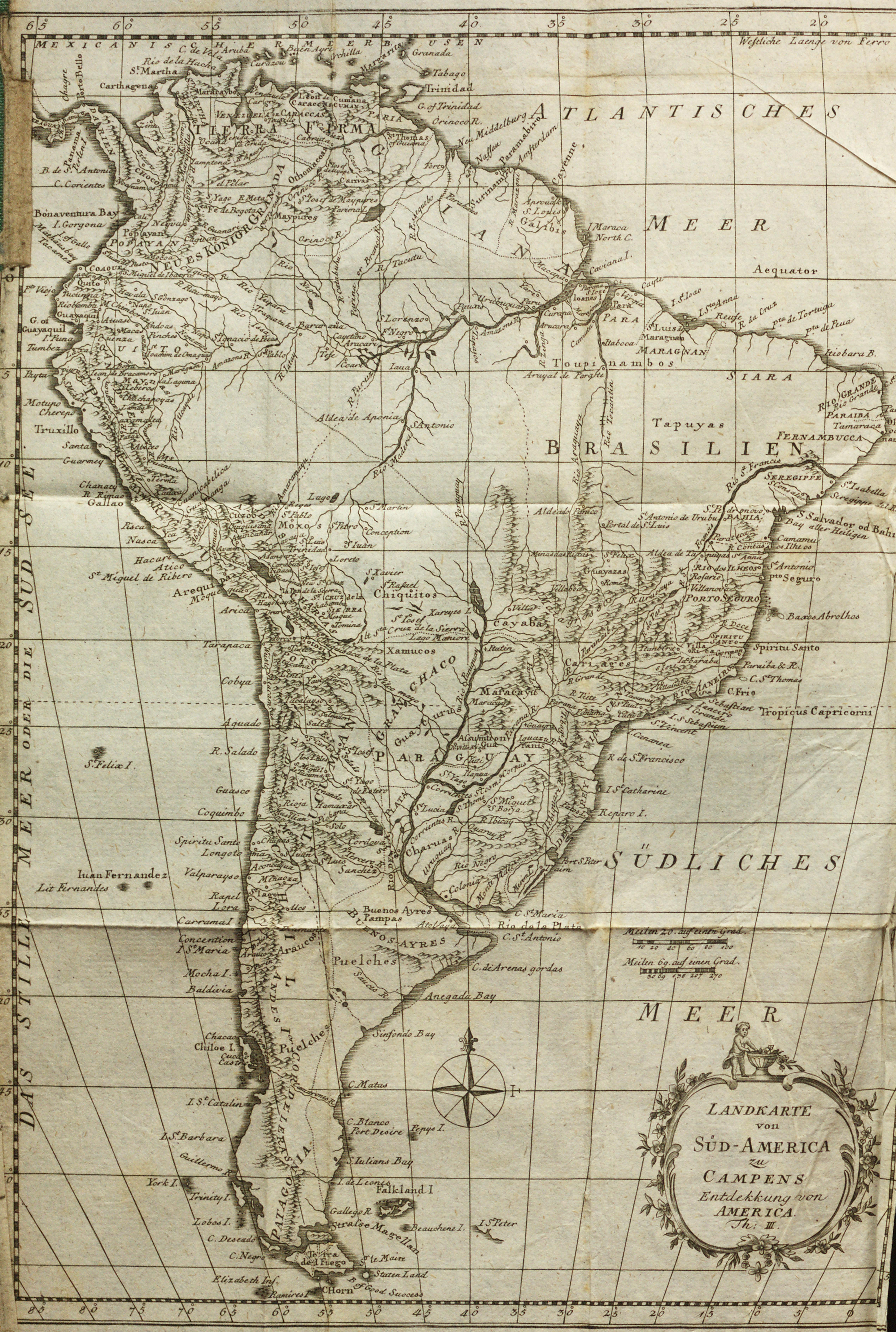 From Joachim Heinrich Campe: Kolumbus oder die Entdekkung von Westindien (1782)